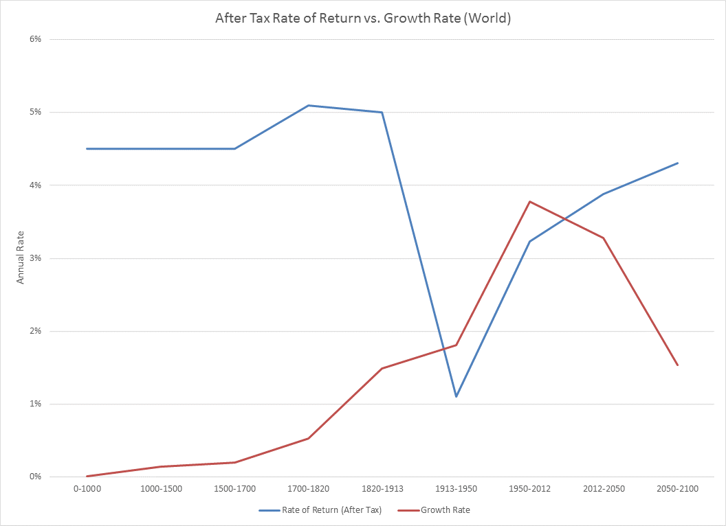 The data series published in figure 10.10 of Piketty's Capital in the Twenty-First Century. Piketty's figure is captioned "After tax rate of return vs. growth rate at the world level, from Antiquity until 2100." Data show that economic growth has only briefly outpaced rate of return. Piketty's version available here: Data